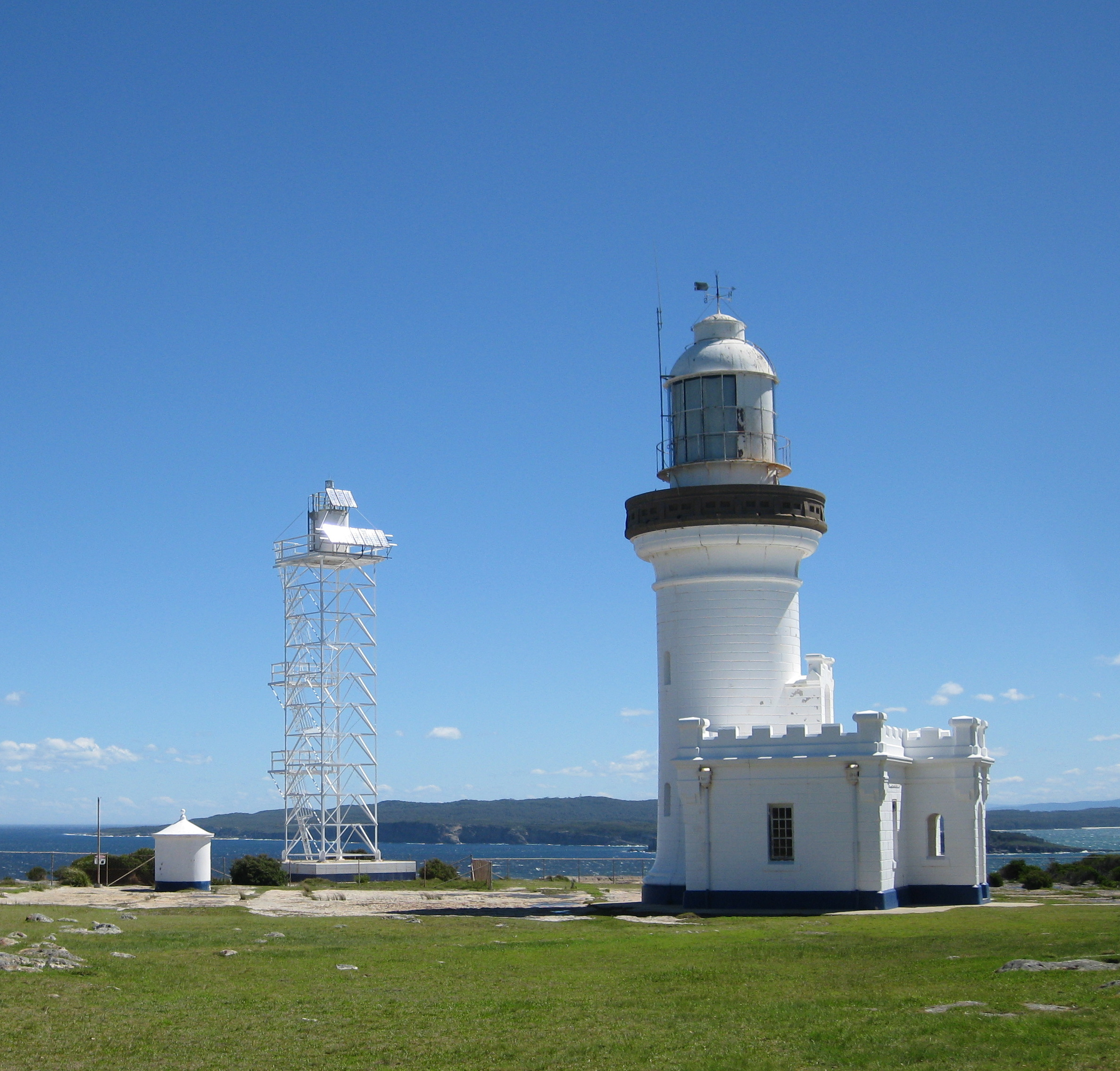 Lighthouses at the entrance to Jervis Bay. New on the left, old on the right.